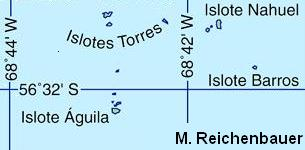 Águila Islet, Chile (Spanish: Islote Águila, "Eagle Islet"). The most southern point in America.